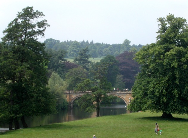 Bridge to Chatsworth House over River Derwent